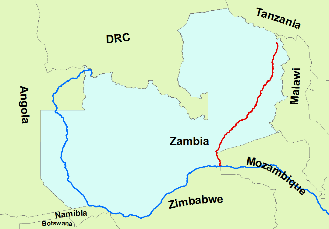 The Luangwa River (red) and part of the Zambezi River (blue)